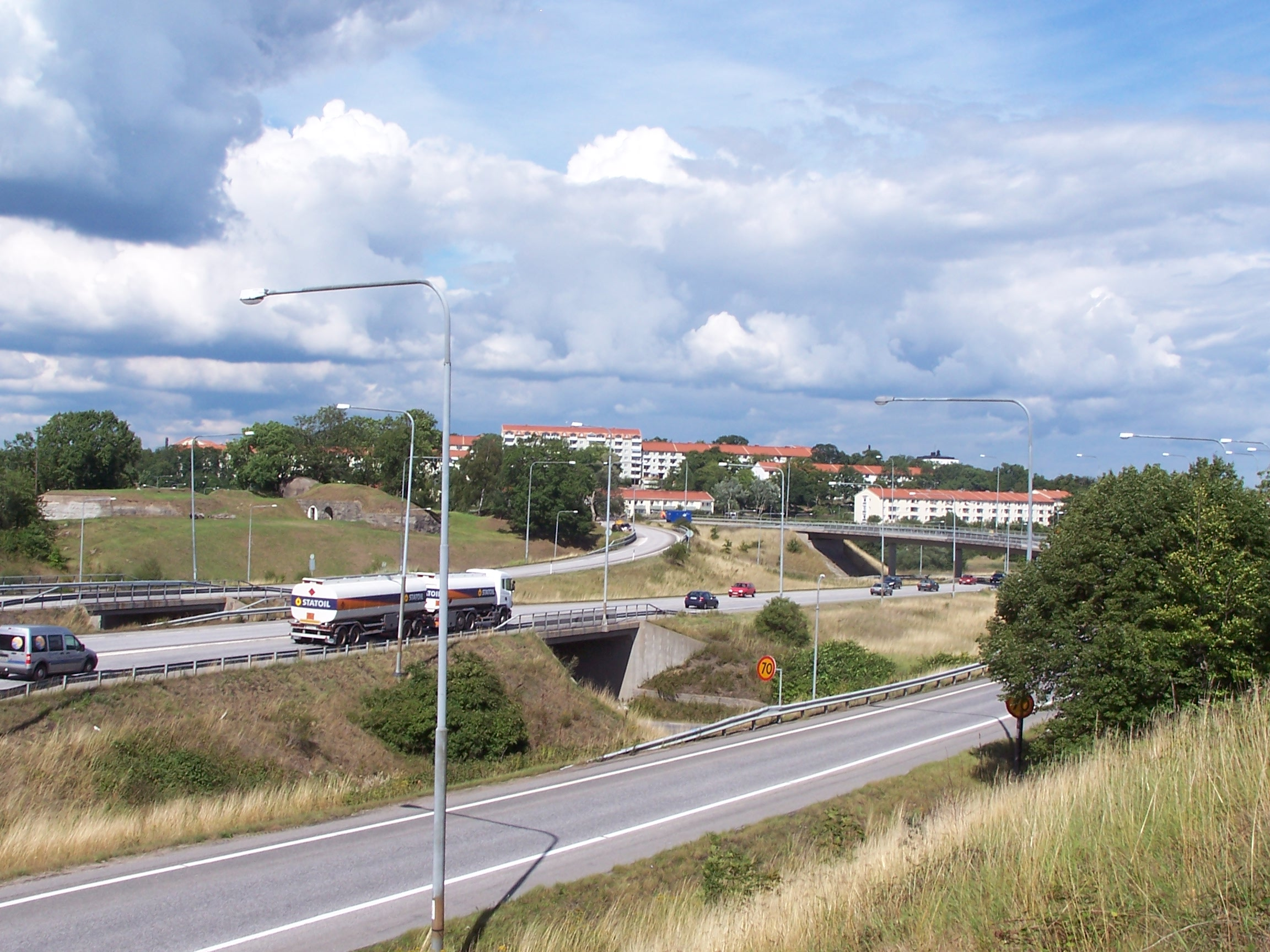 National Road 28, Oskarsvärn, Karlskrona, Sweden.